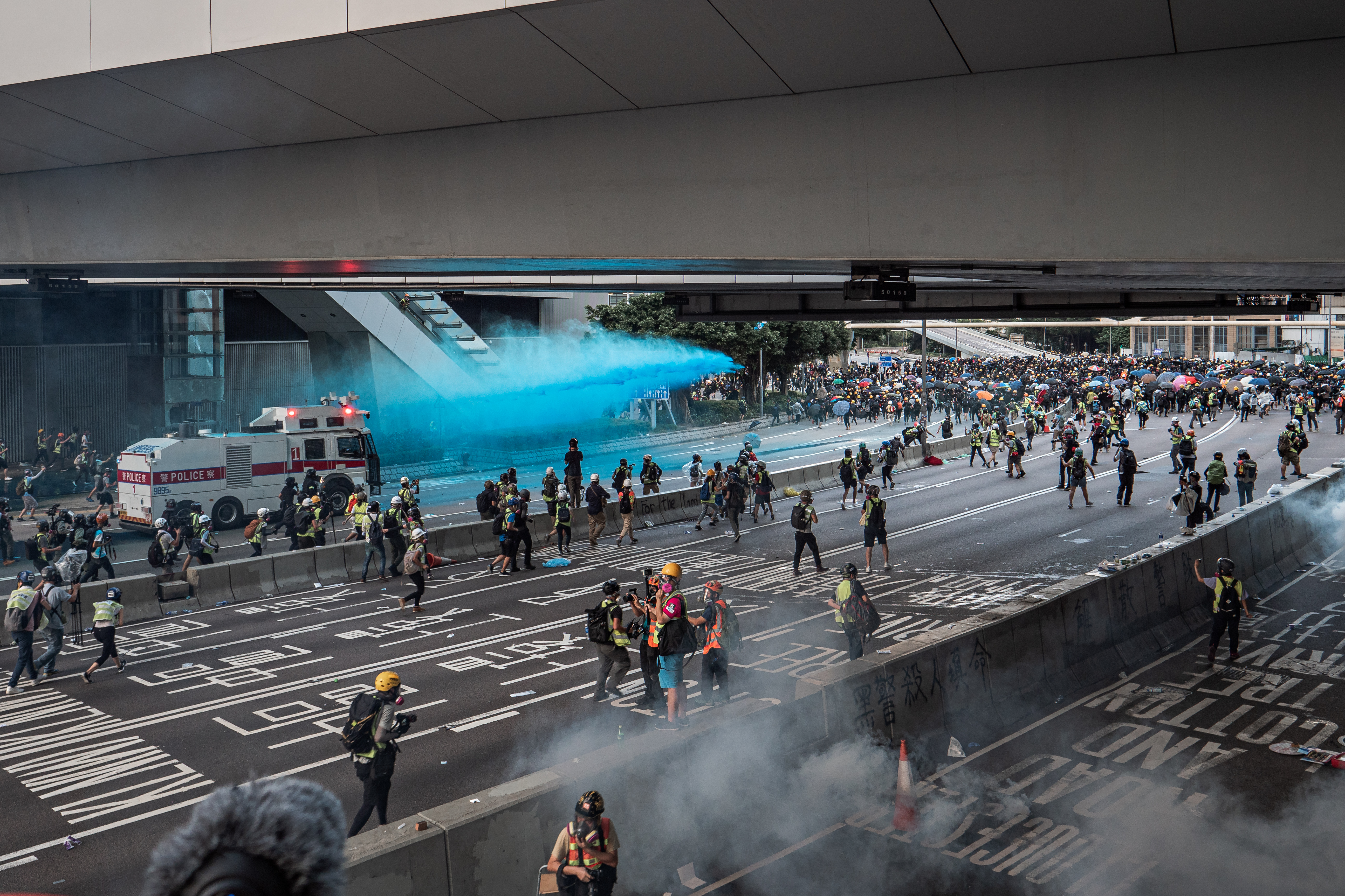 2019-09-15 Hong Kong anti-extradition bill protest